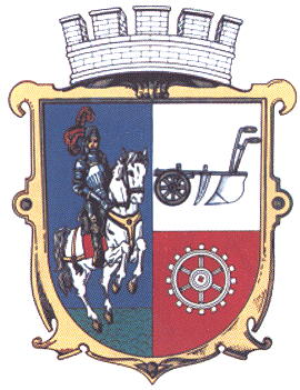 Coat of arms of Hodolany in Olomouc (Czech Republic).